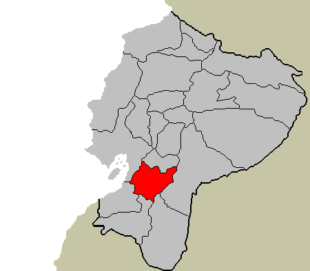 Azuay Province, Ecuador